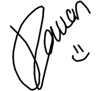 Roman Lobs signature